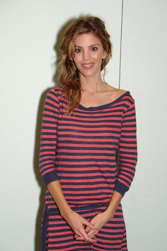 Amy Allen in the Fan Club Lounge